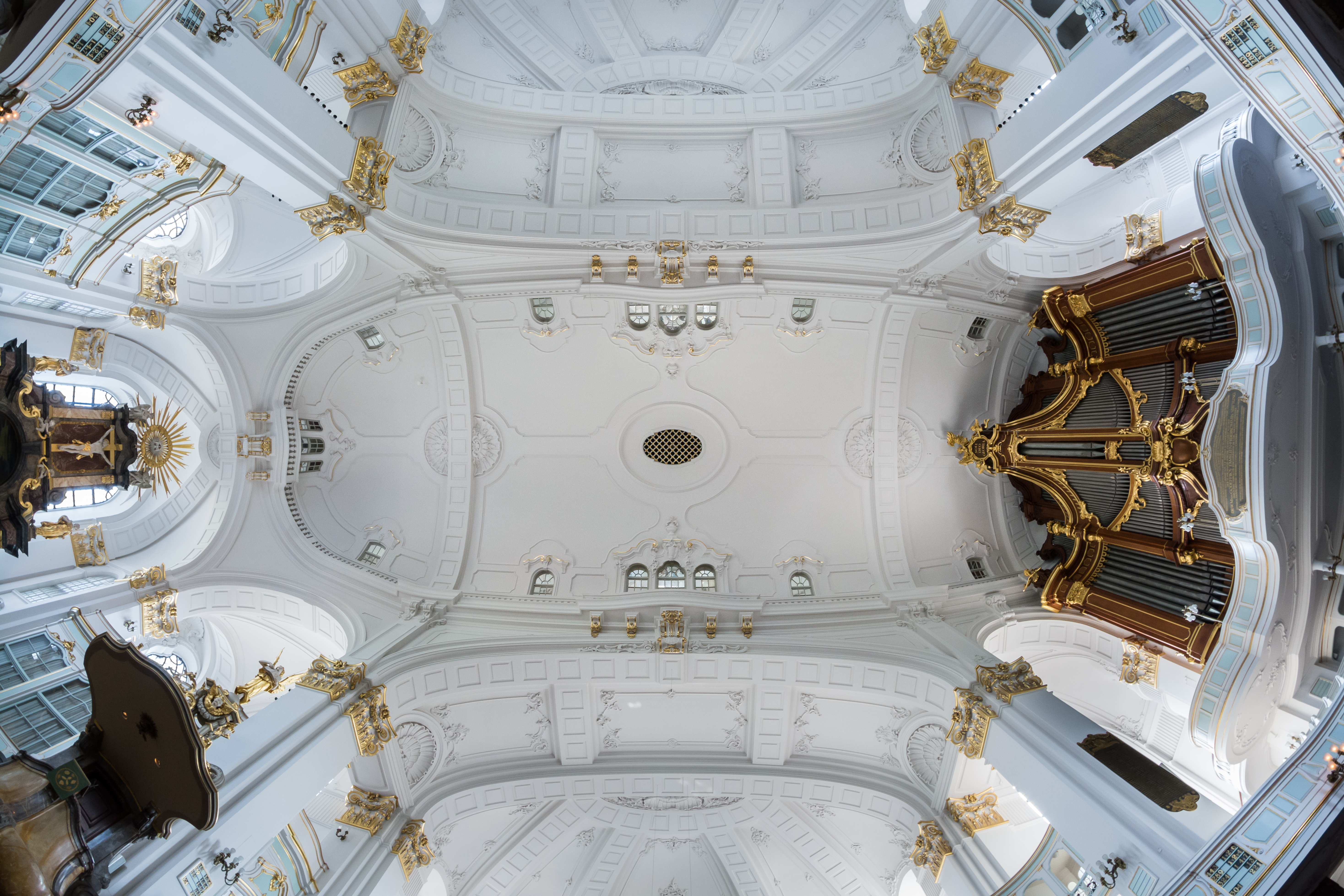 Ceiling of St. Michaelis church in Hamburg. This is a photograph of an architectural monument.